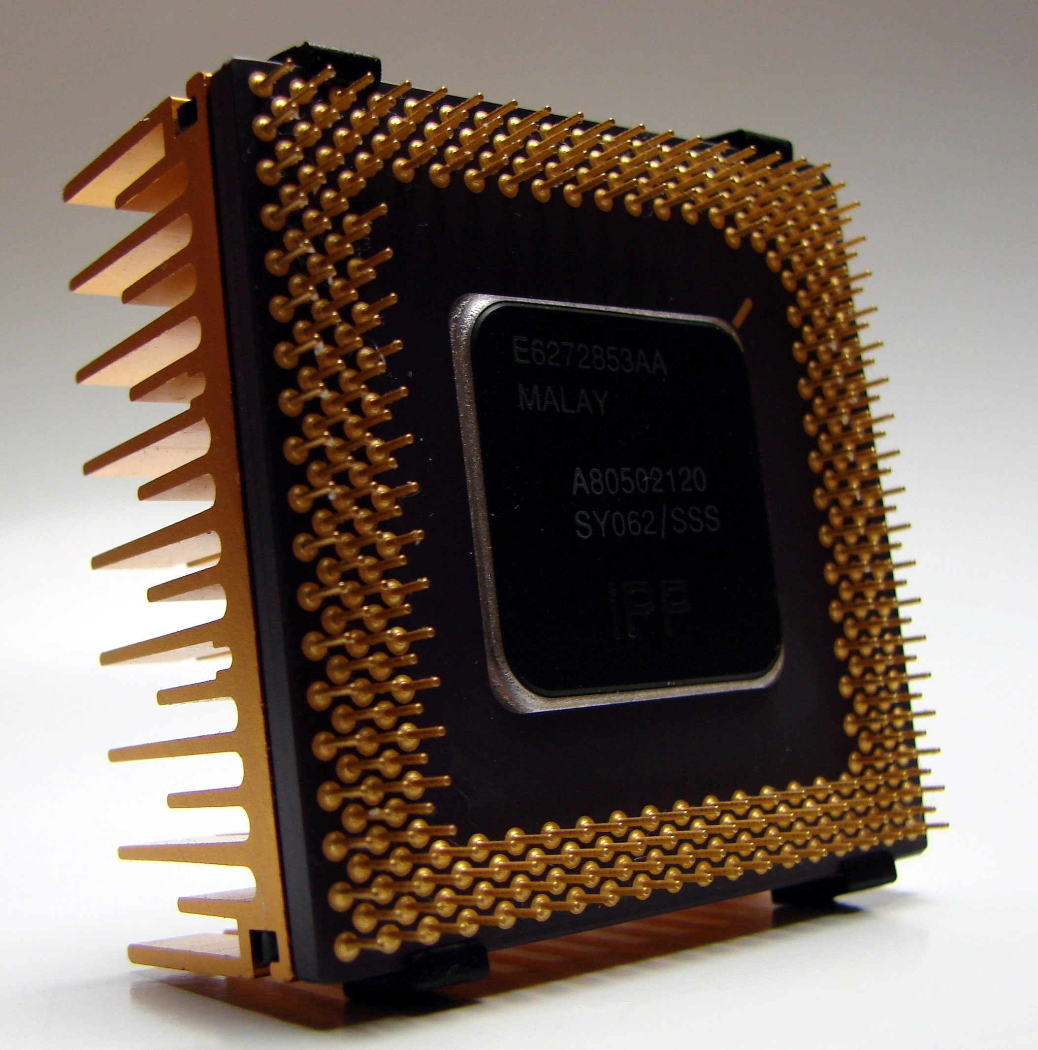 Intel Pentium Processor (backside) with heat sink